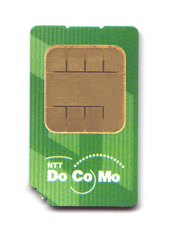 NTT DoCoMo FOMA card chip (green).